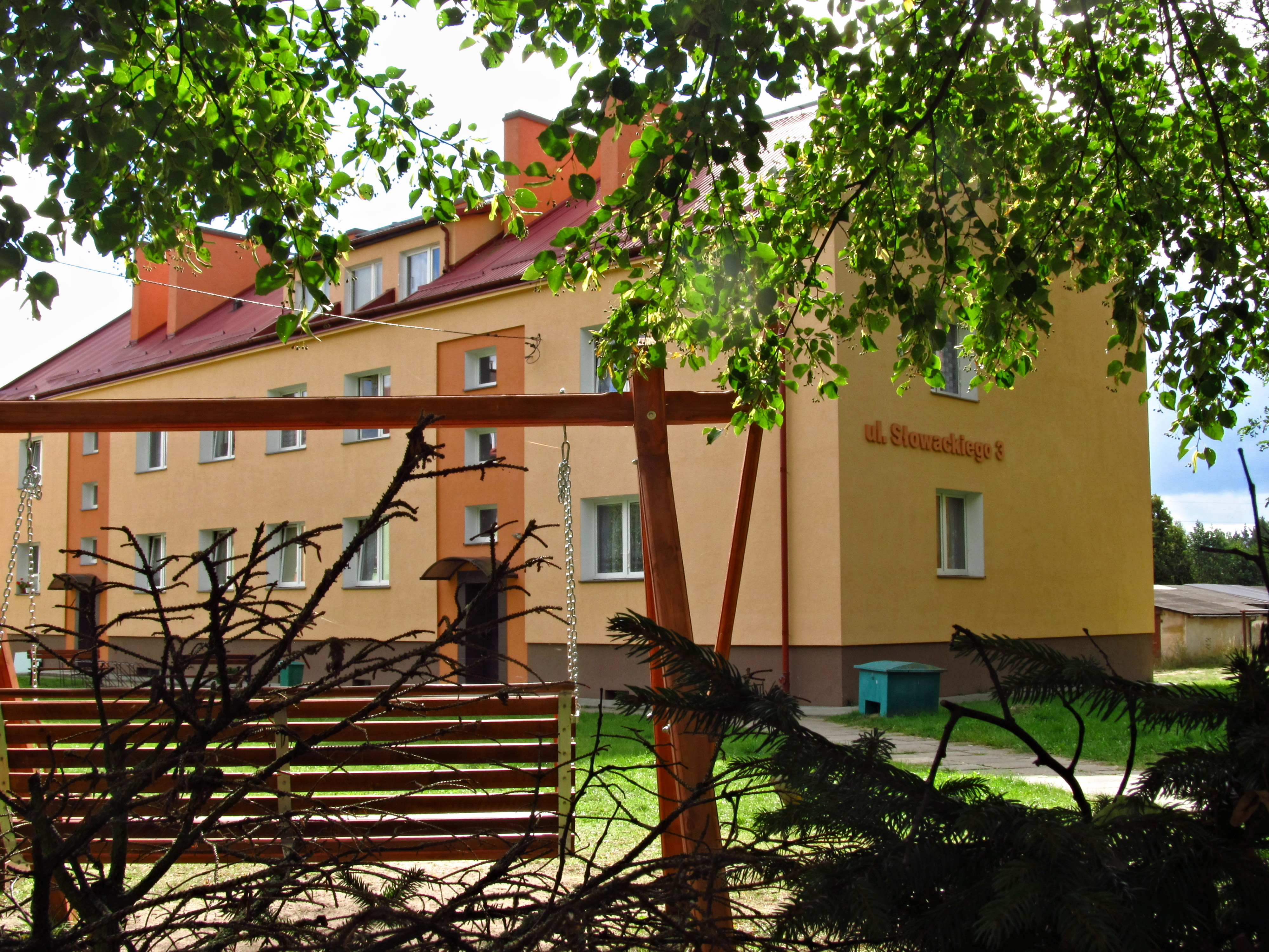 Blocks of flats on the street Slovak 1, 2, 3, 4, 5, 7 and 9 and the course of streets Slovak and connecting with her down the street Ring